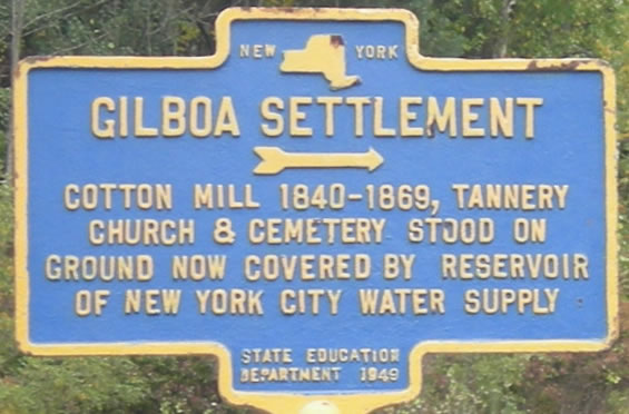 The Gilboa, New York historical sign.